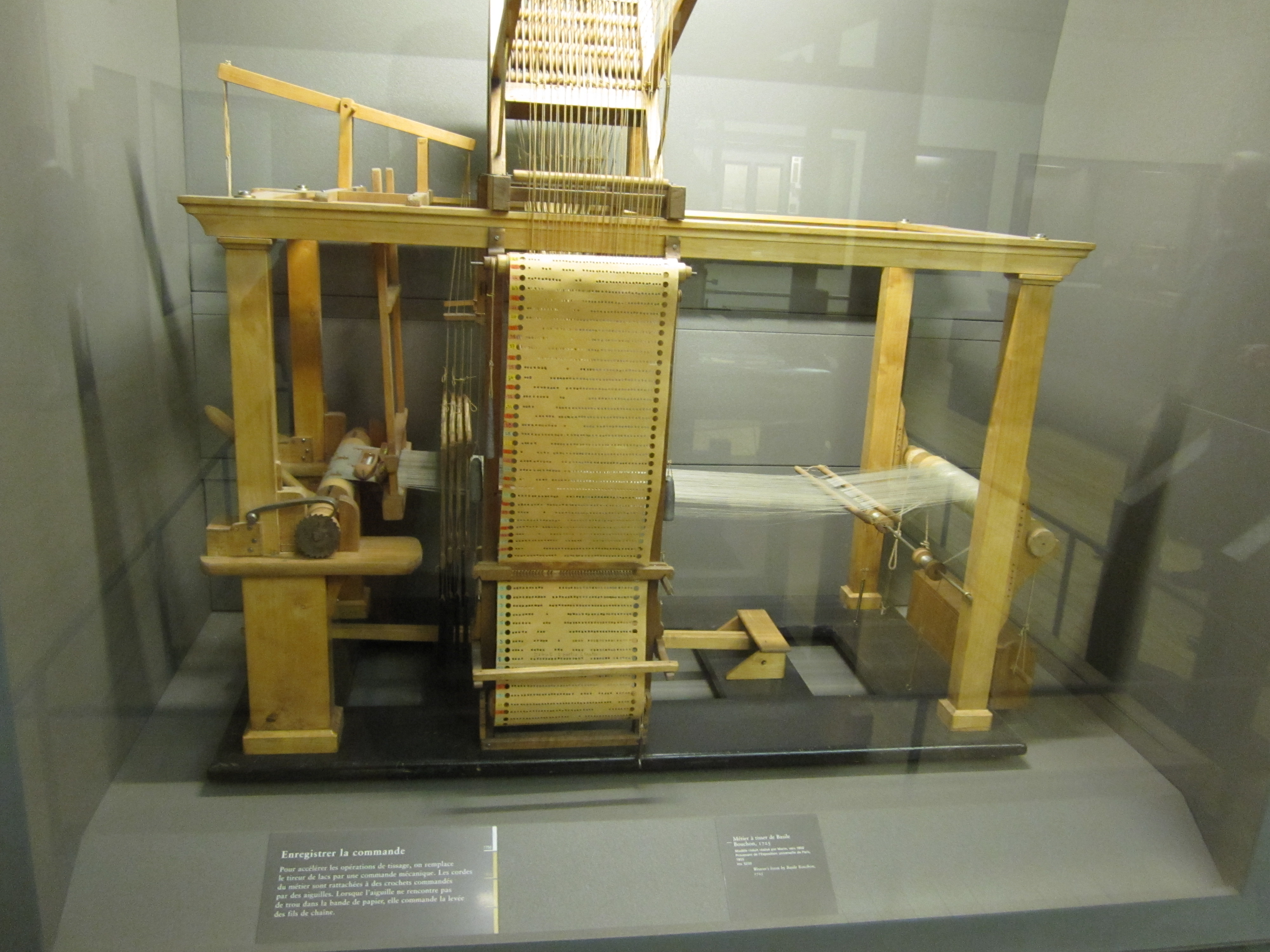 Photograph of a Basile Bouchon automated loom from 1725, displayed at the Musée des arts et métiers, Paris.